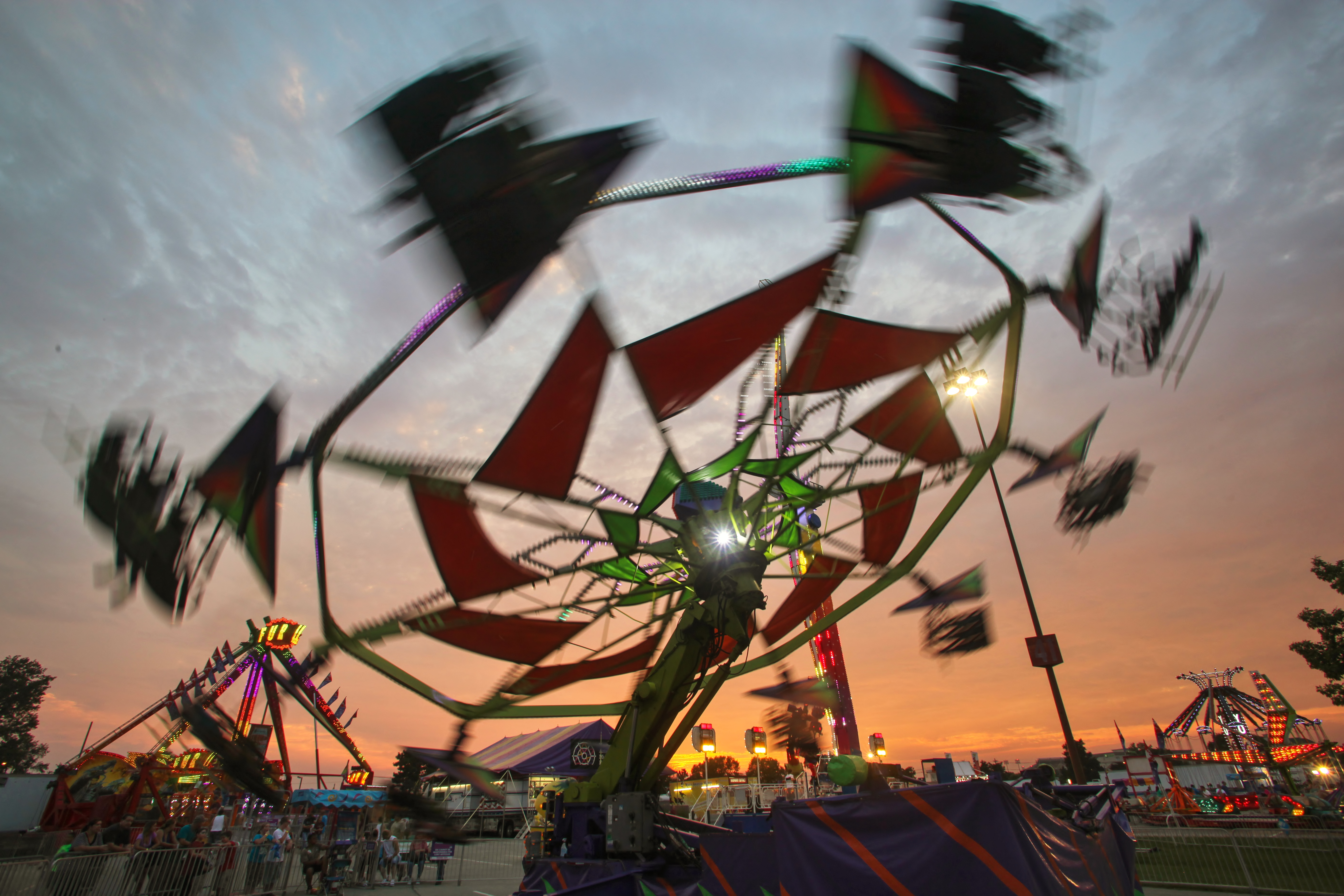 Ride at the Kentucky State Fair.